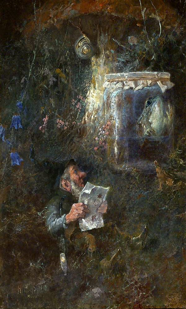 Gnome with newspaper and tobacco pipe under a toadstool, with a snail above him and a tree frog in the glass.